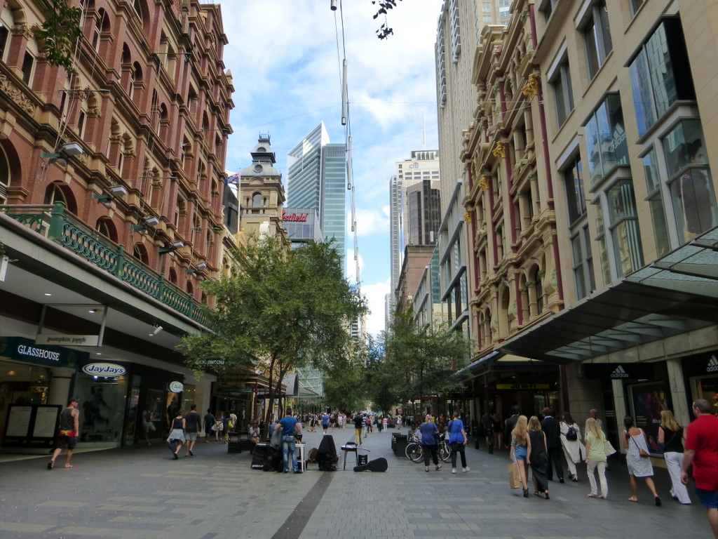 Pitt Street Mall in 2014